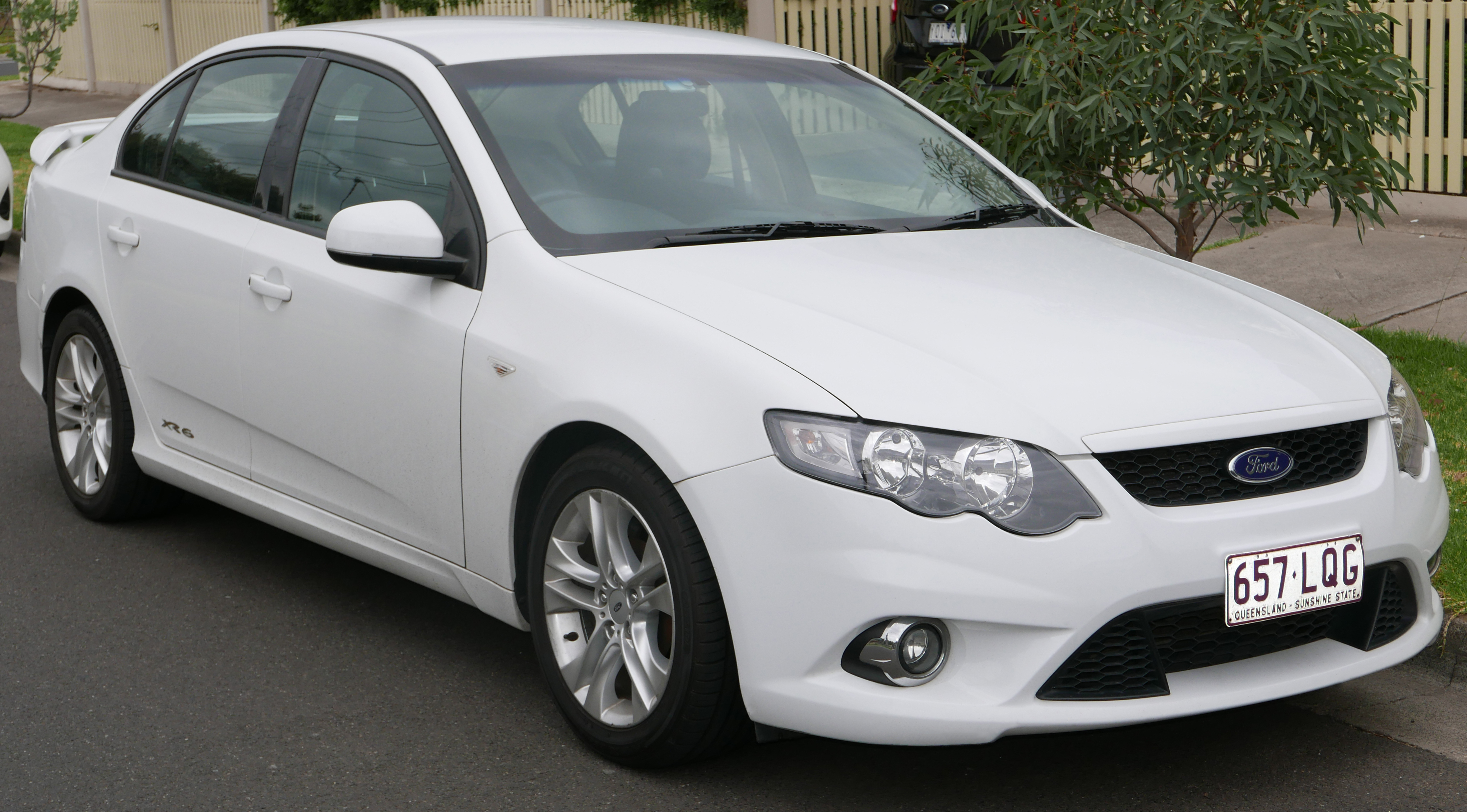 2009 Ford Falcon (FG) XR6 sedan. Photographed in Oak Park, Victoria, Australia. Vehicle registration enquiry resultsJurisdictionQueenslandRegistration657LQGChassis code6FPAAAJGSW9M38224 Year of manufacture2009